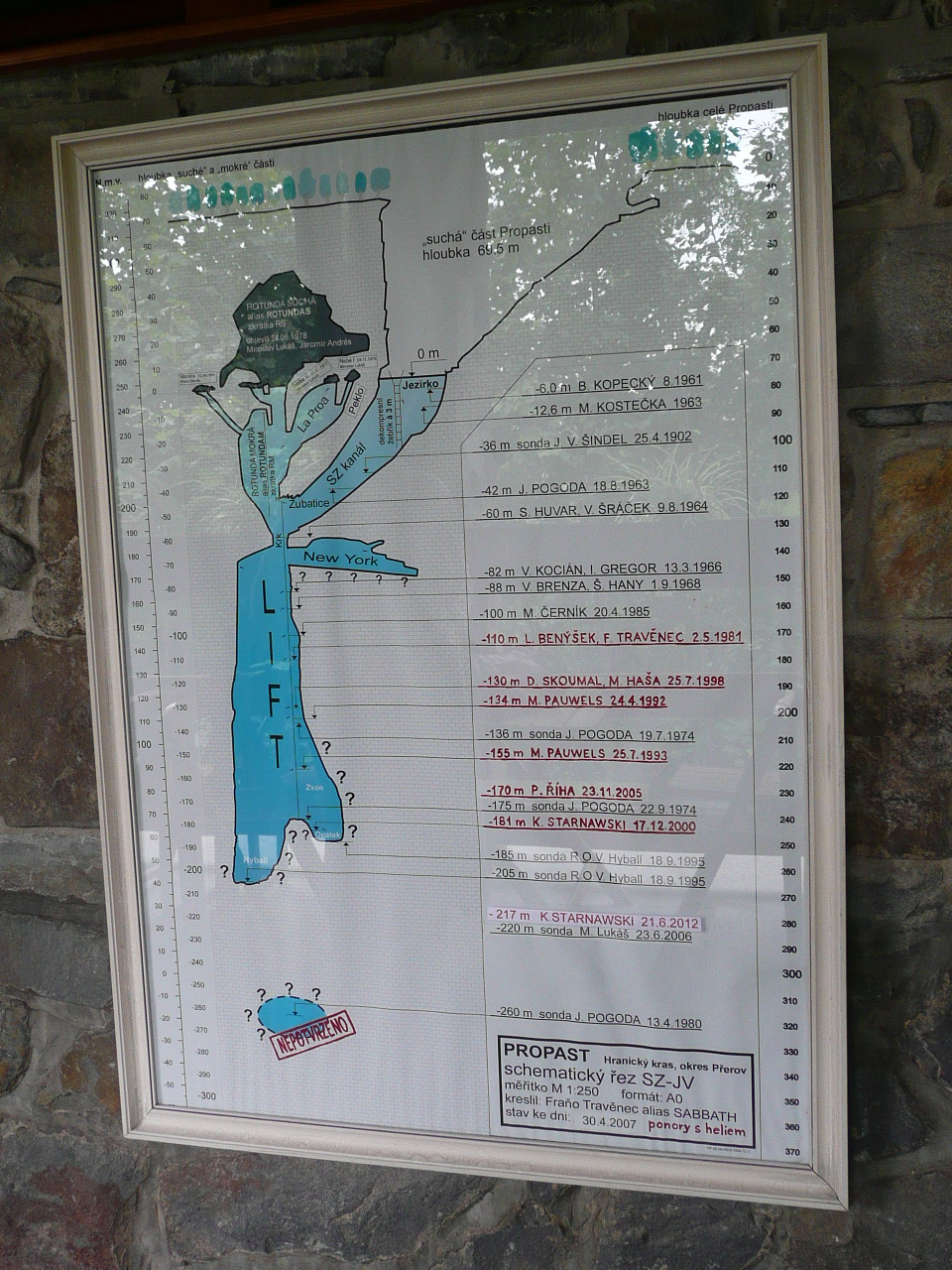 Map of the Hranice pit cave exploration, 2007 status, openly presented near the aragonite cave, Prerov District, Moravia.